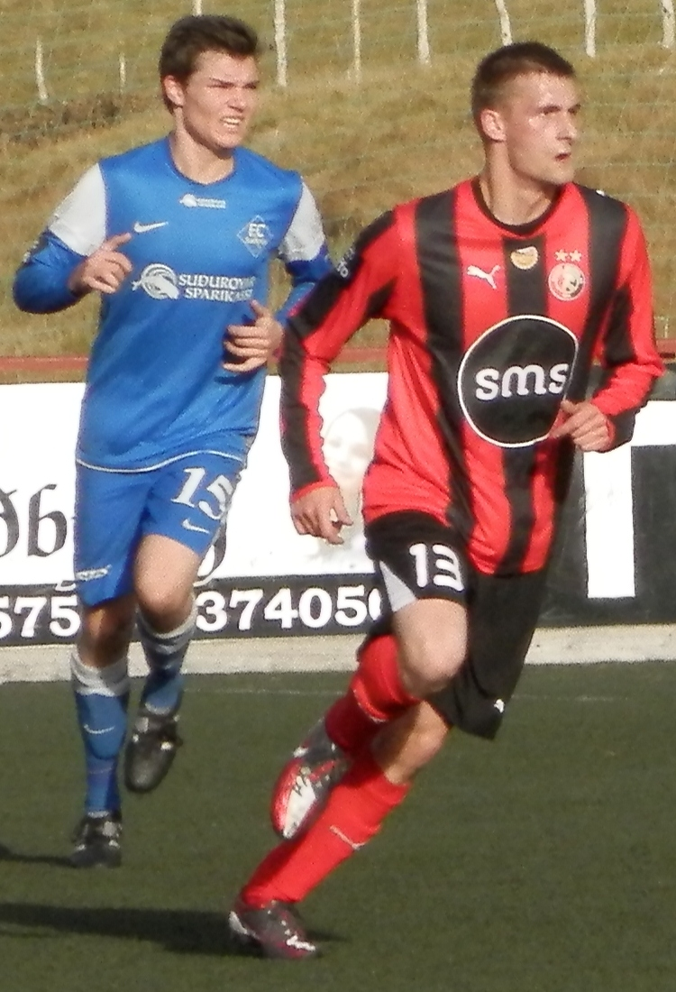 Gunnar H. Haraldsen (red/black) is a Faroese football player who currently (2012) plays for HB Tórshavn. The player in blue/white is Ingi Poulsen, who currently plays for FC Suðuroy.